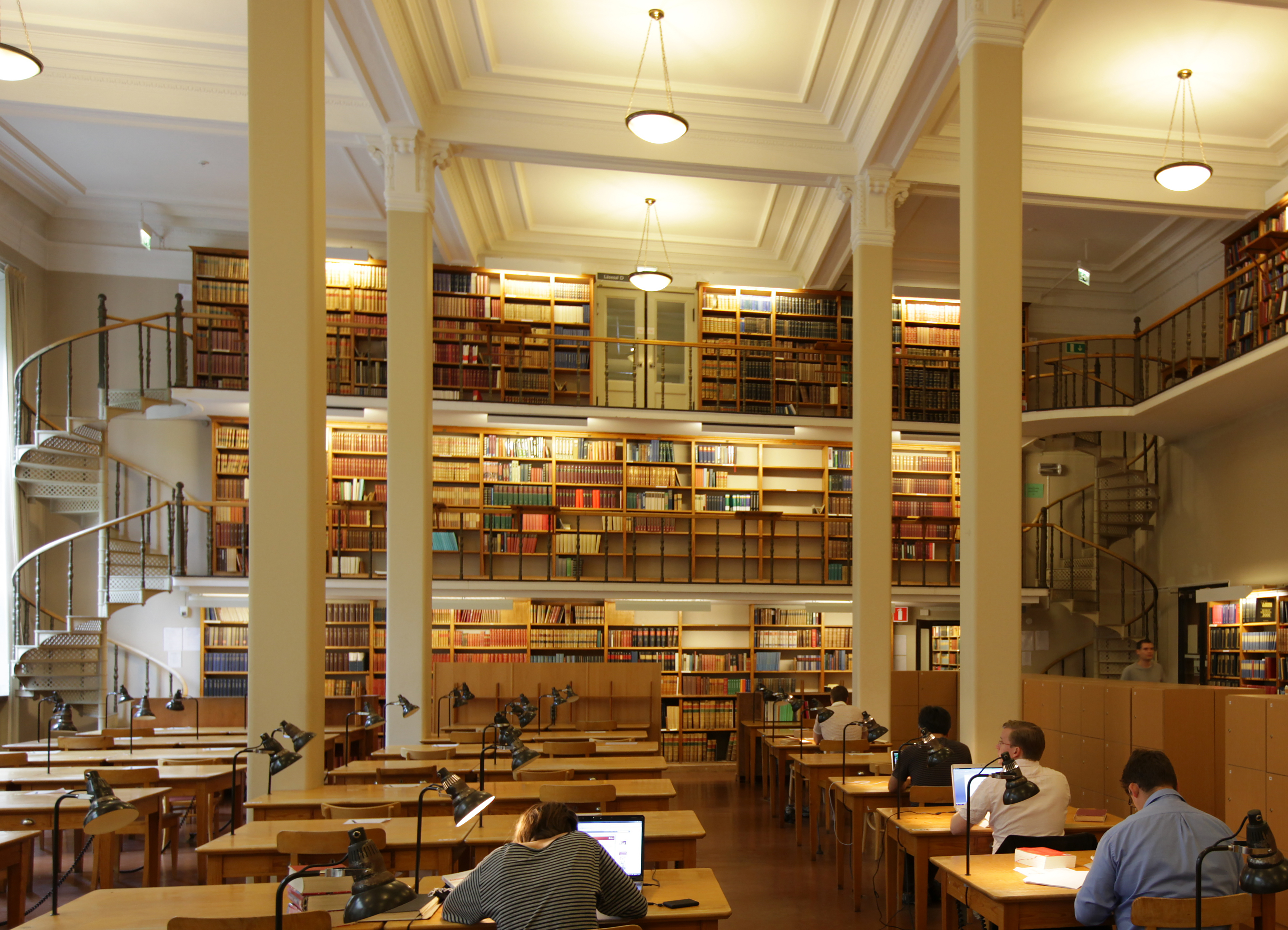 Main reading room Carolina Rediviva